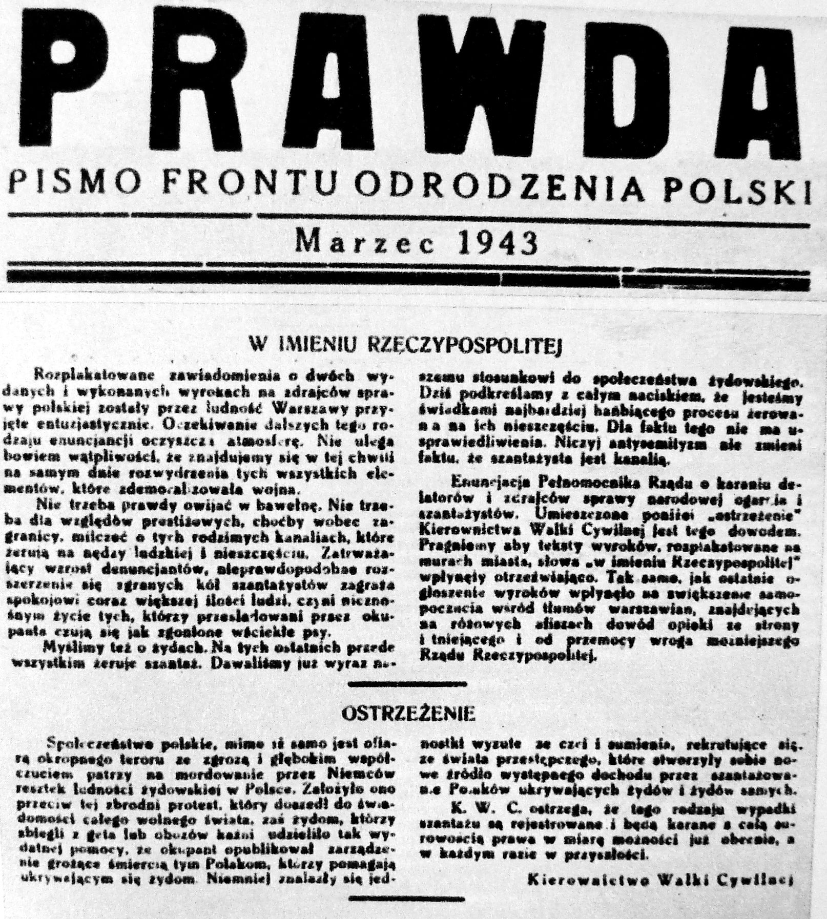 "Prawda" Front Odrodzenia Polski marzec 1943.